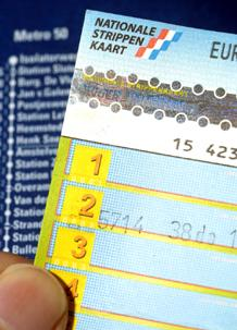 A strippenkaart, the Dutch bus ticket between 1980 and 2011